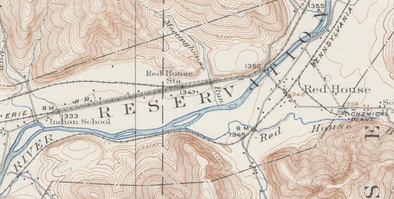 The 1923 topographic map shows the Erie Railroad and Pennsylvania Railroad running through the town of Red House, NY.